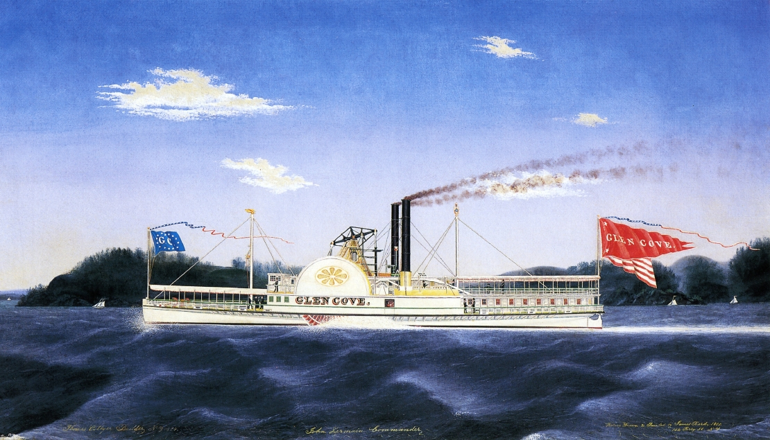 Glen Cove, Hudson River steamboat built 1855, oil on canvas by James Bard.